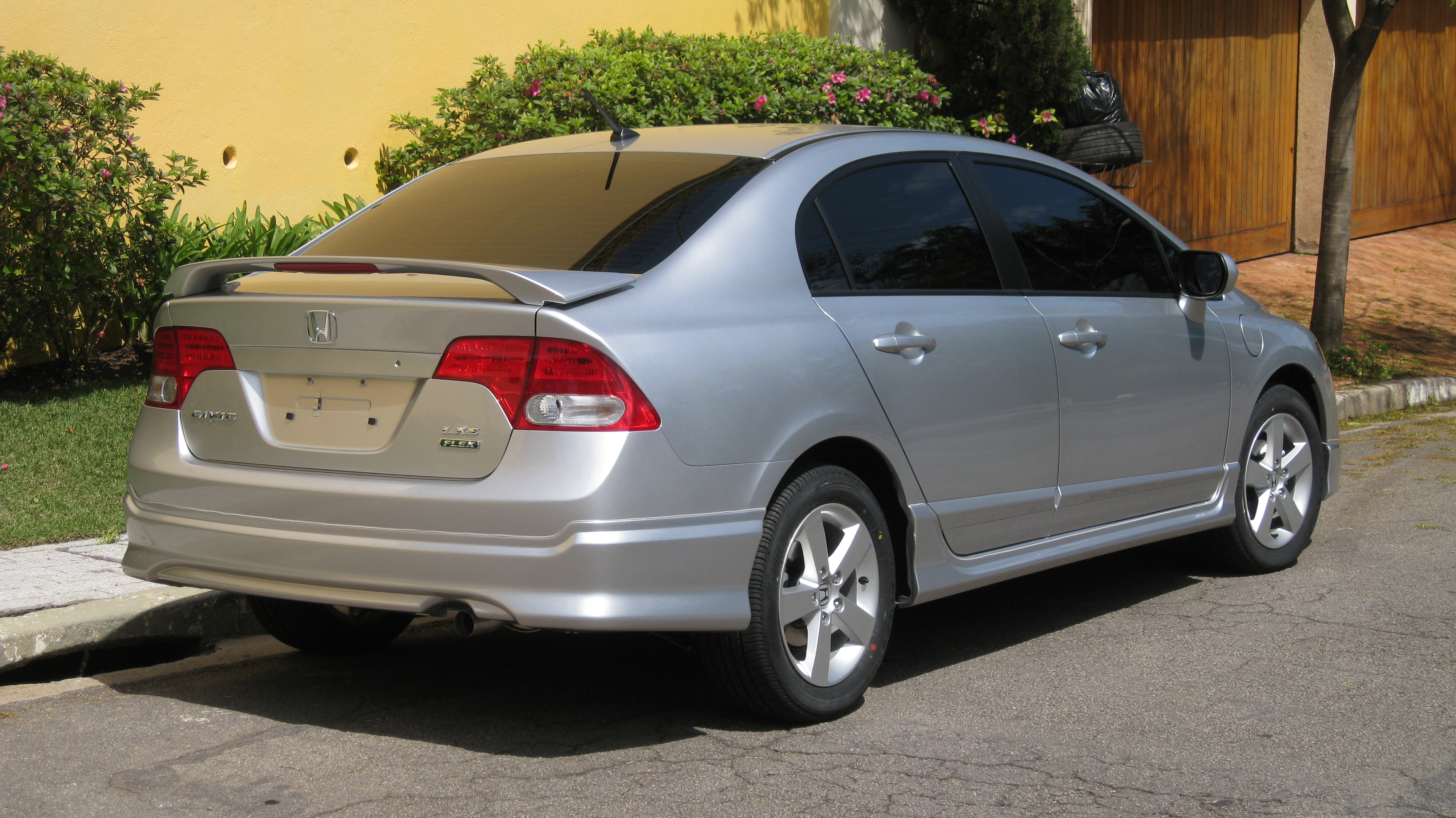 2009 Honda Civic BRAZIL FLEX.